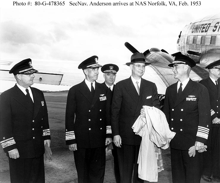 Secretary of the Navy Robert B. Anderson (right center) Arrives at Naval Air Station, Norfolk, Virginia, 21 February 1953. The officers with him are (from left to right): Rear Admiral I.N. Kiland; Vice Admiral John J. Ballentine; Rear Admiral W.C. Switzer; and Admiral Lynde D. McCormick. Rear Admiral T.B. Brittain is in the extreme right background. The aircraft is a Douglas R4D.